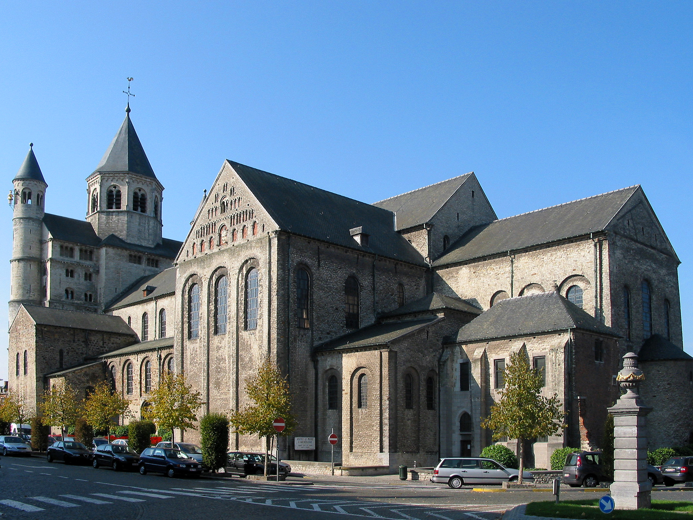 Nivelles (Belgium), the romanesque St. Getrude colegiate church (XI/XIIIth centuries).